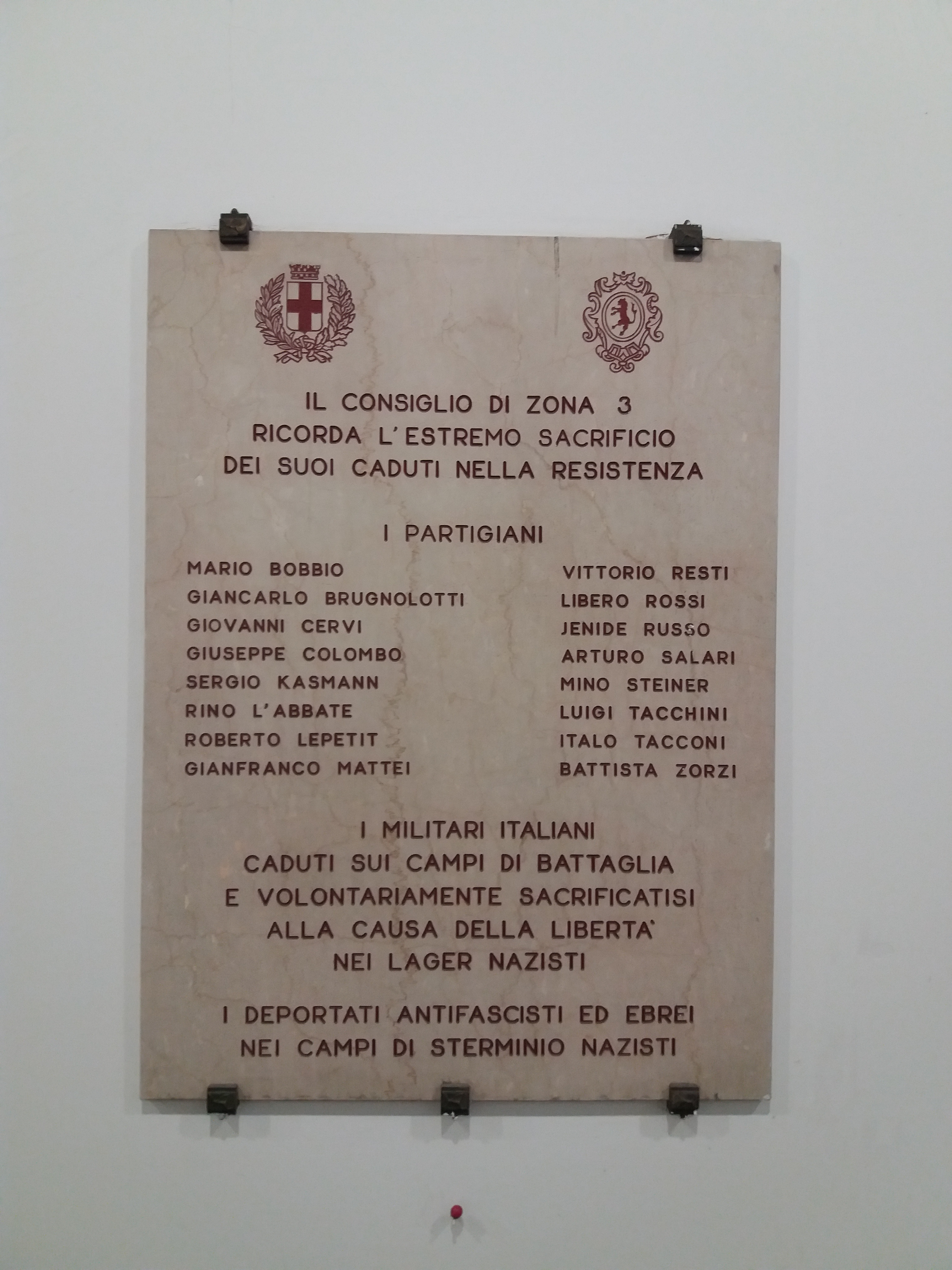 Plaque remembering people who died resisting fascists and nazi in Milan City District n. 3